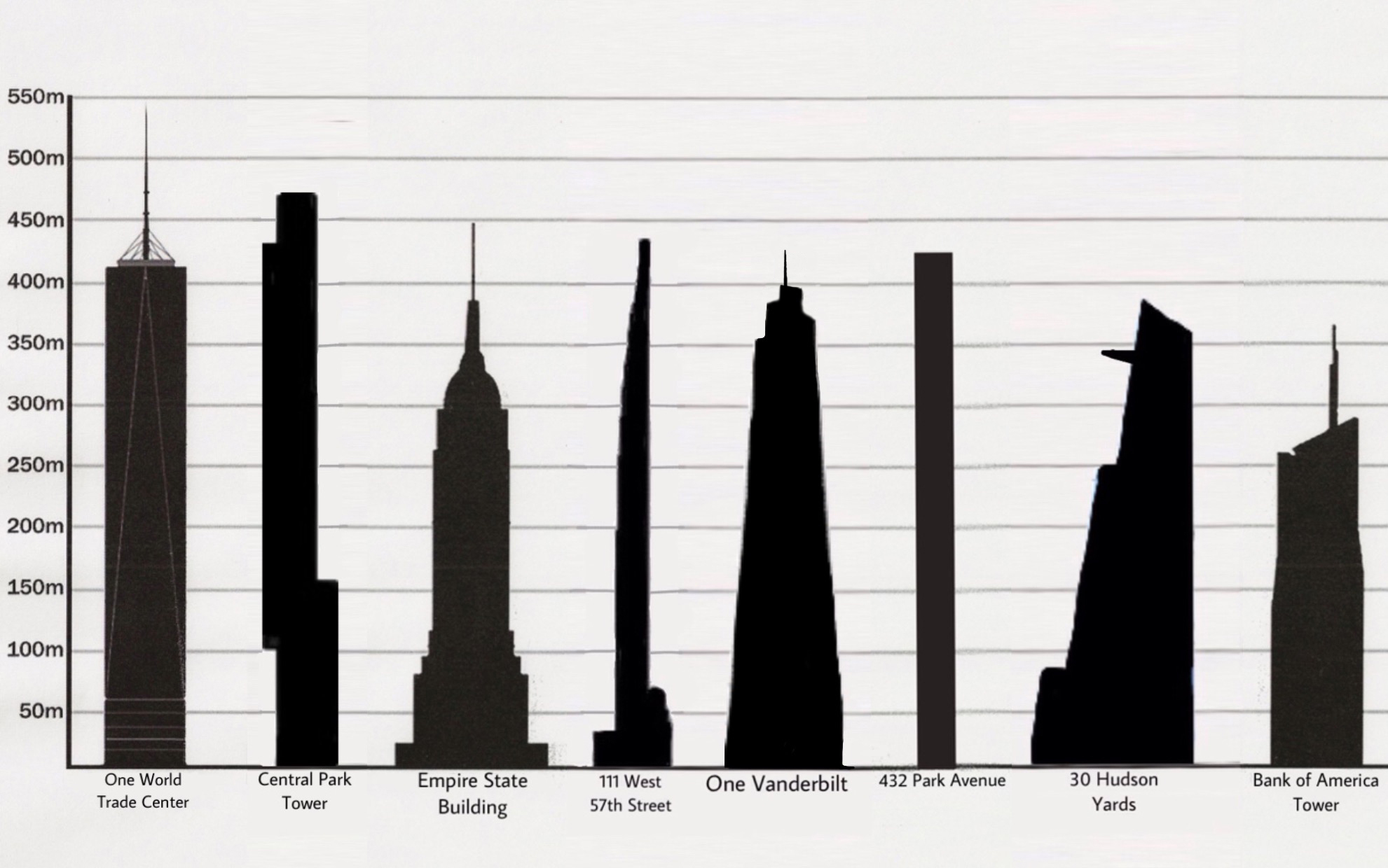 I fixed the top of 1 Vanderbilt, roof height 397 m pinnacle height 427 m